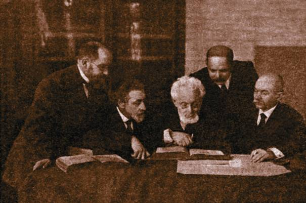 Odessa literary group; L-R: Y. Ravnitzki, S. An-ski, Mendele Mocher Sforim, H.N. Bialik, S. Frug.